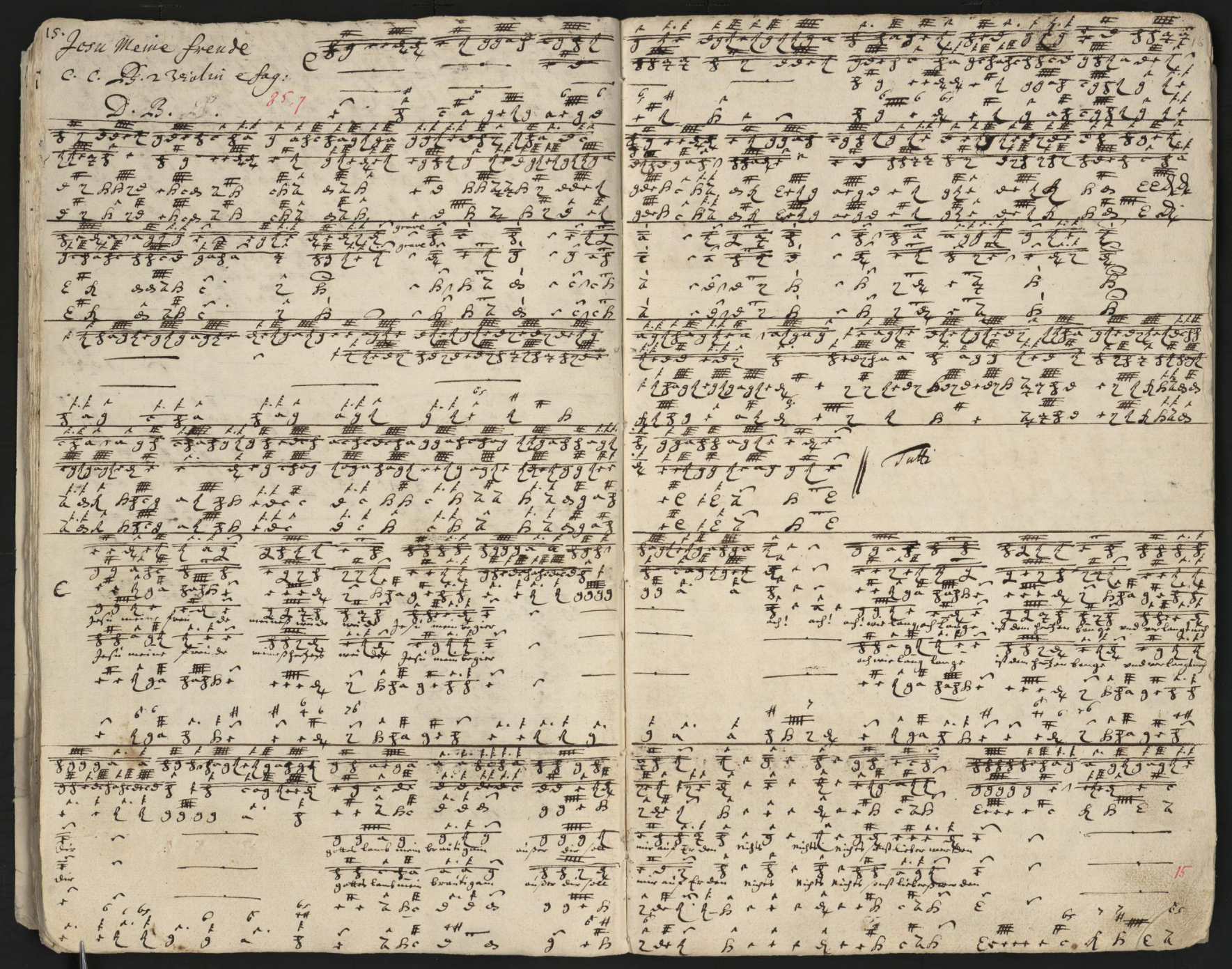 The opening pages of the tablature score of Dieterich Buxtehude's cantata Jesu, meine Freude BuxWV 60, written by the copyist Gustaf Düben